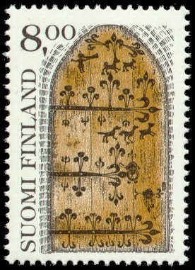 Postage stamp depicting the wooden door of the Hollola church